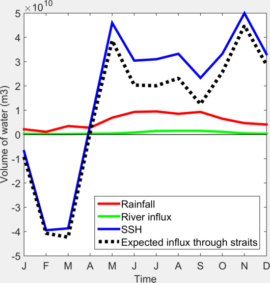 From “General Circulation and Principal Wave modes in Andaman Sea from Observations”